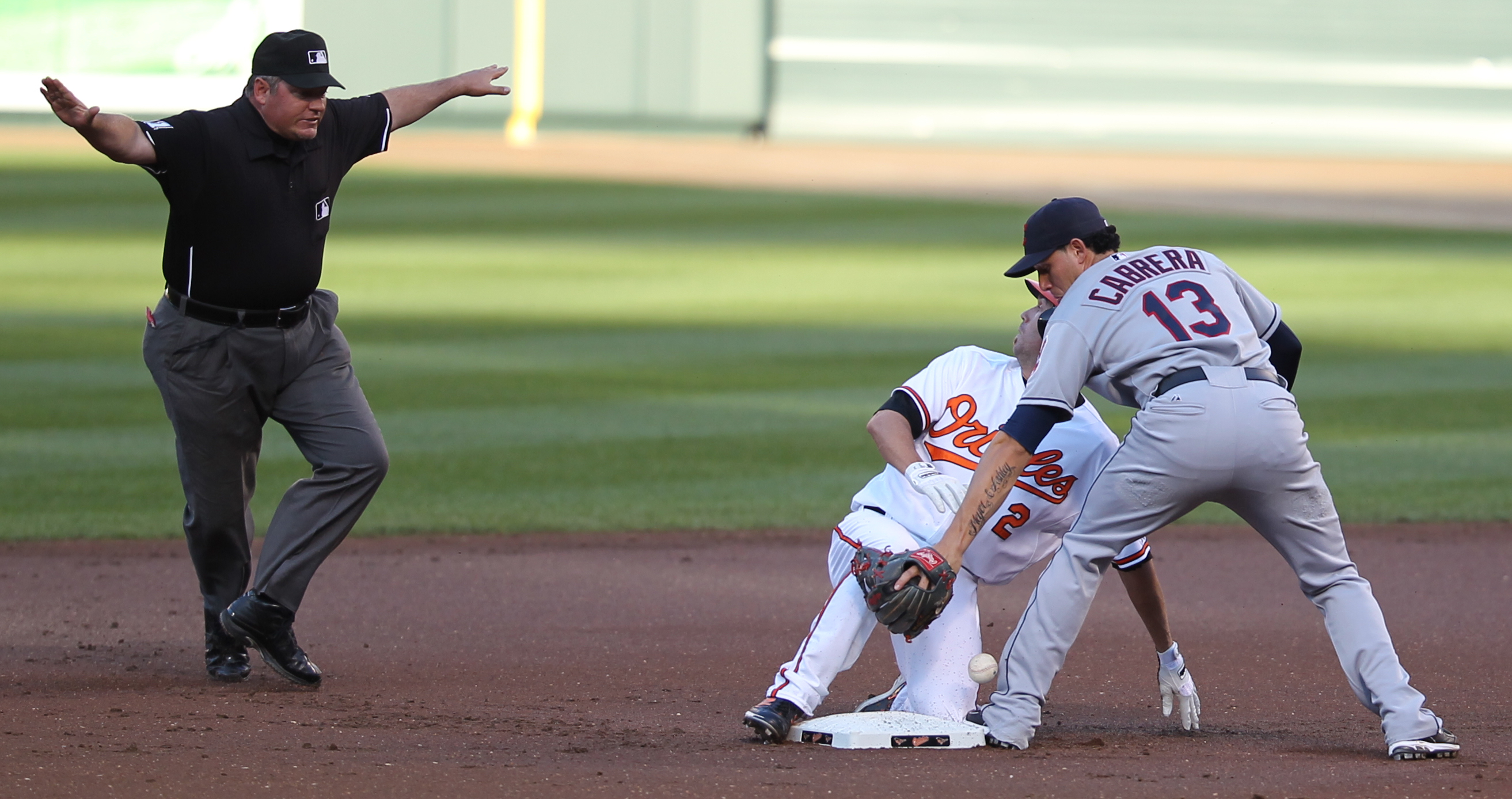 Indians at Orioles July 16, 2011